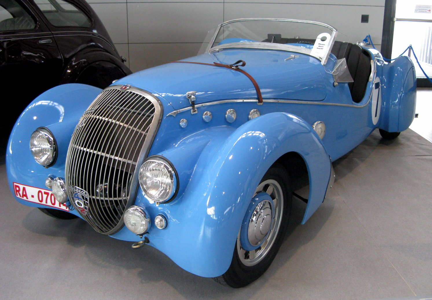 Peugeot 402 DS DarlMat Special Roadster